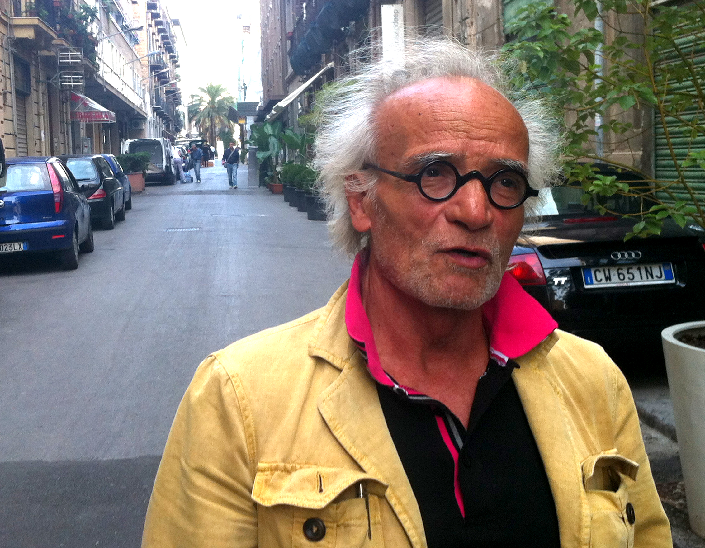 The Italian writer and journalist Angelo Vecchio